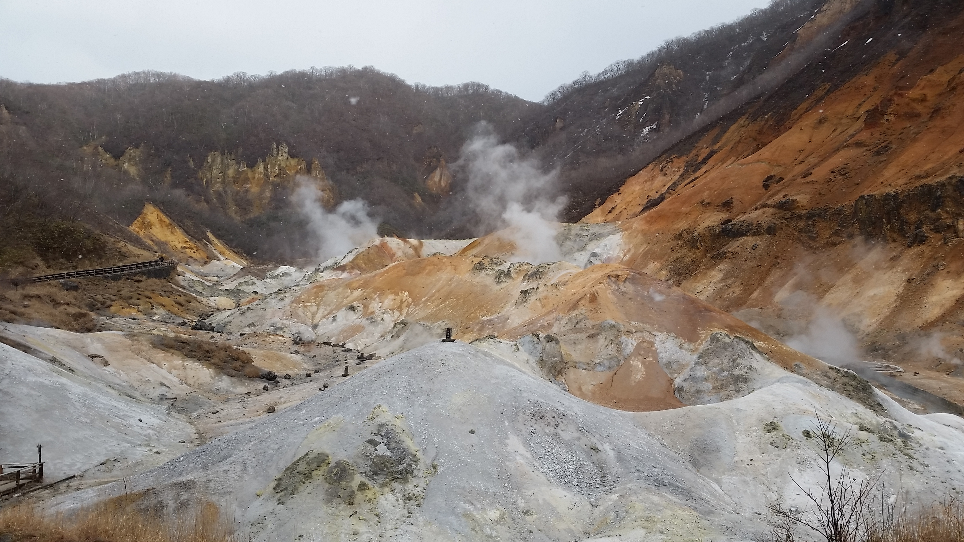 Hot spring at Noboribetsu Onsen.